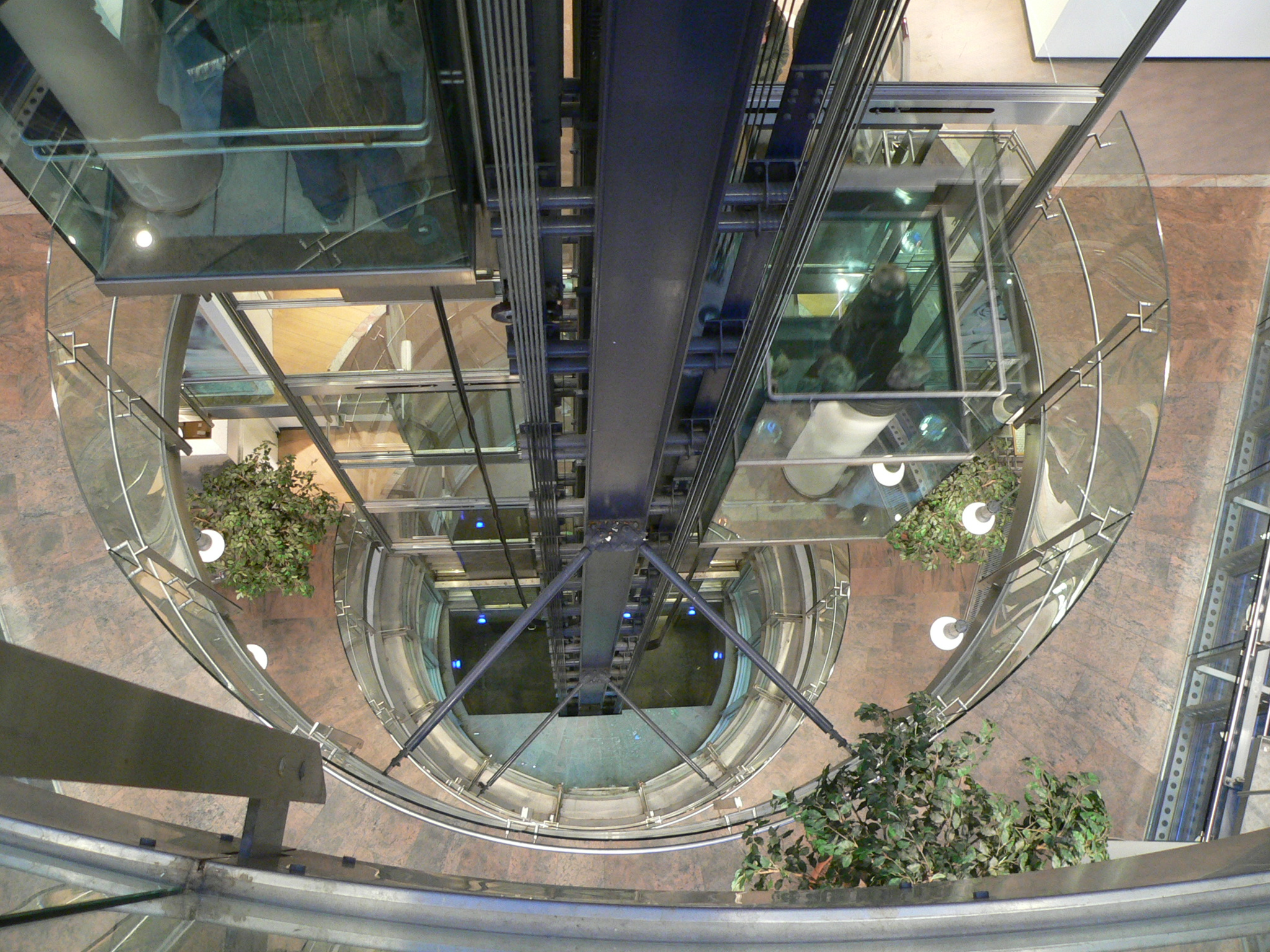 Elevator in the department store Karstadt, Hannover, Germany.